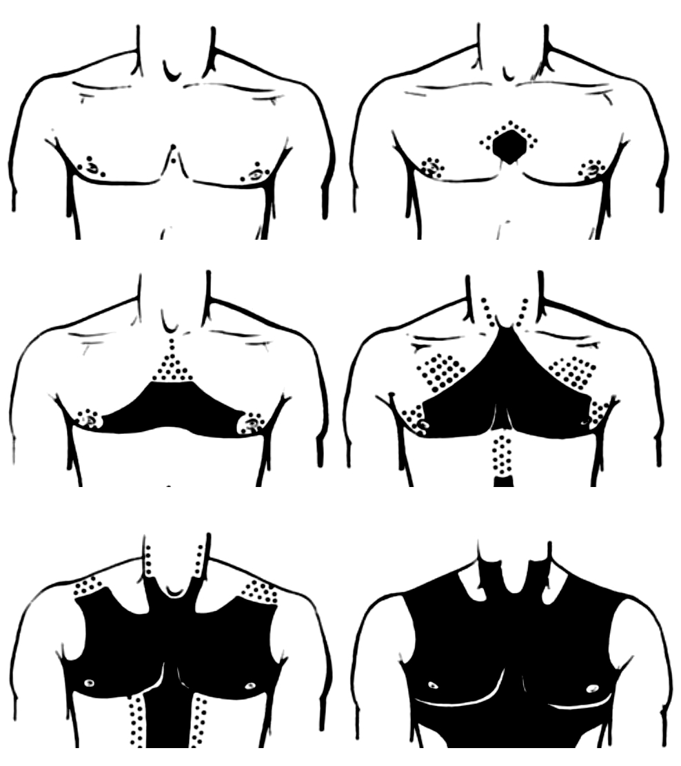 Stages of development and allocation of chest hair